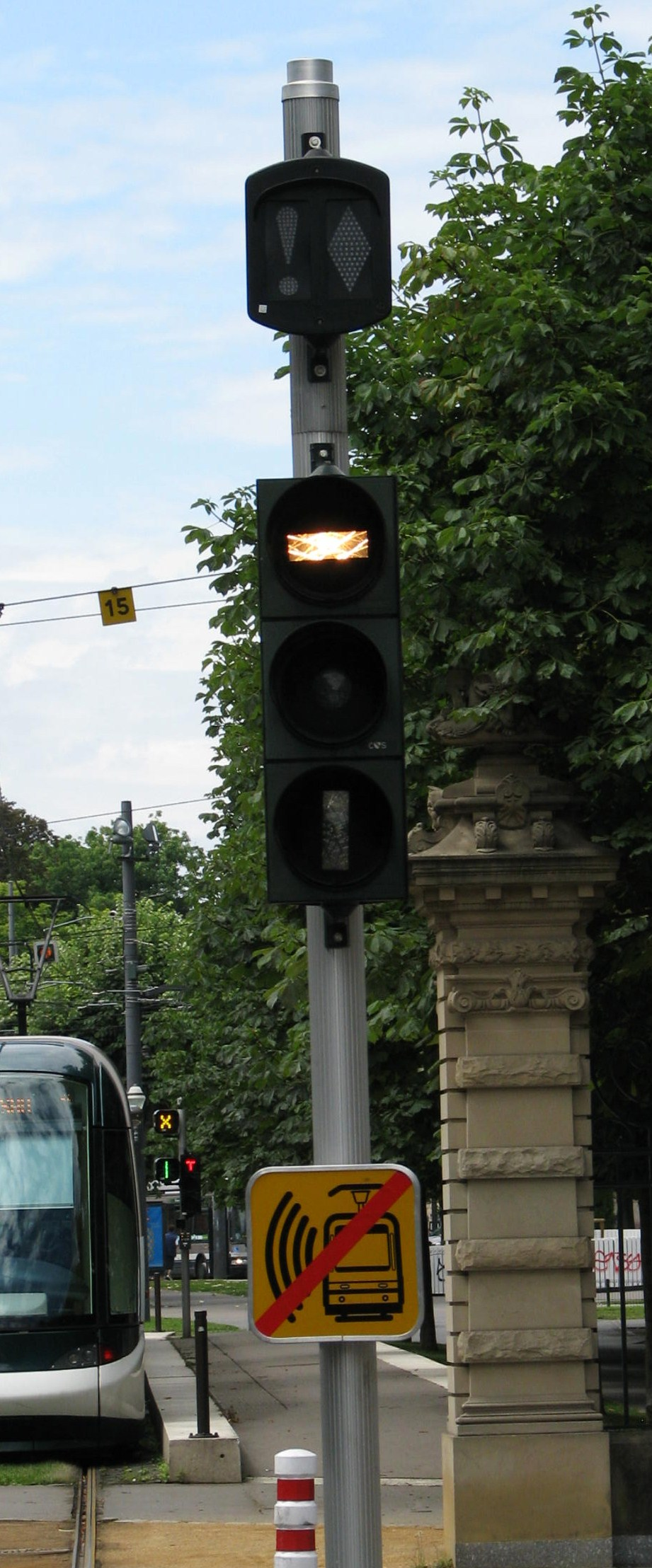 Tramways in Strasbourg